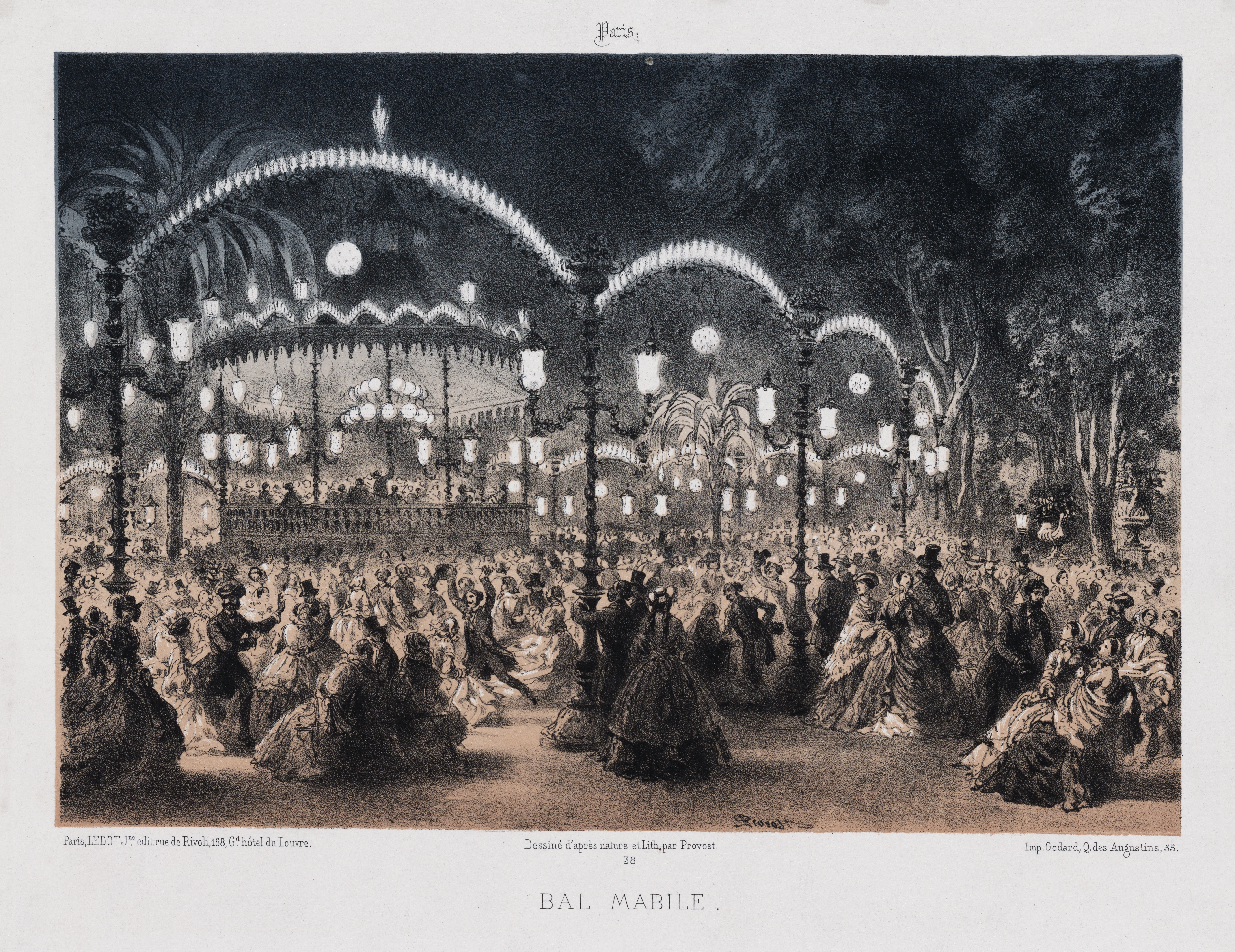 The dancing gardens Bal Mabille: a garden with a profusion of gas lamps; an Oriental pavillon for the musicians at left. A large crowd is dancing around the bandstand.